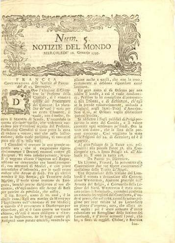 Notizie del mondo, newspaper of Venice (1778-1815), a first page of 1793.